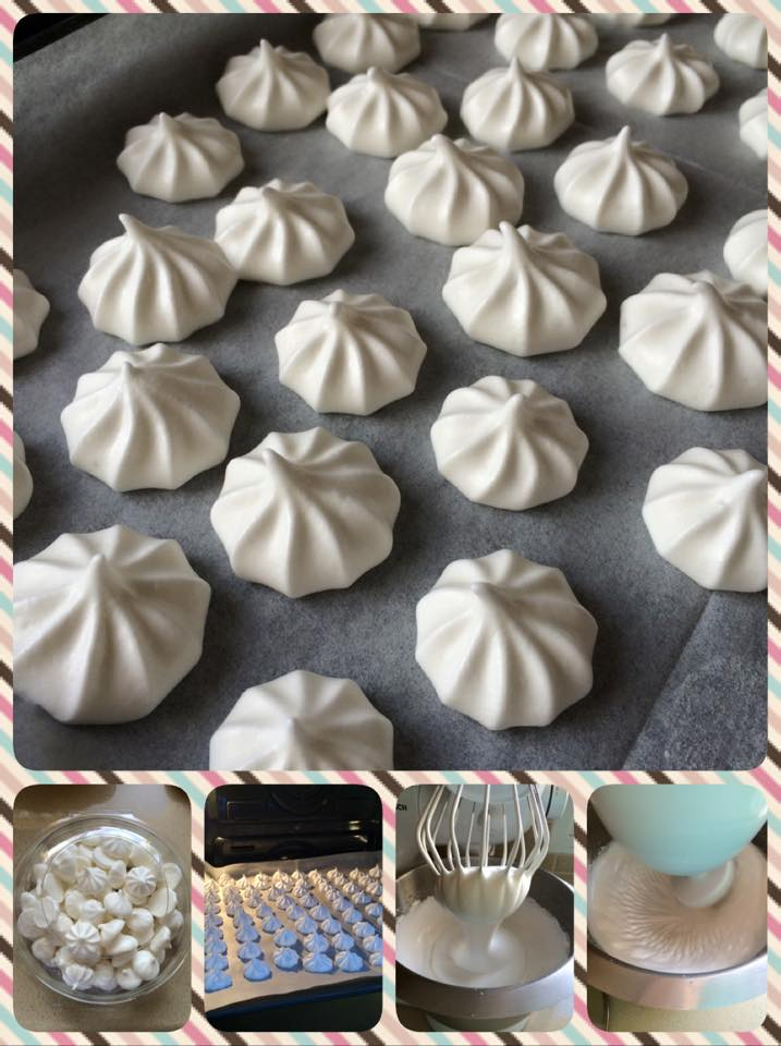 vegan meringue kisses made from aquafaba (chickpea whey)